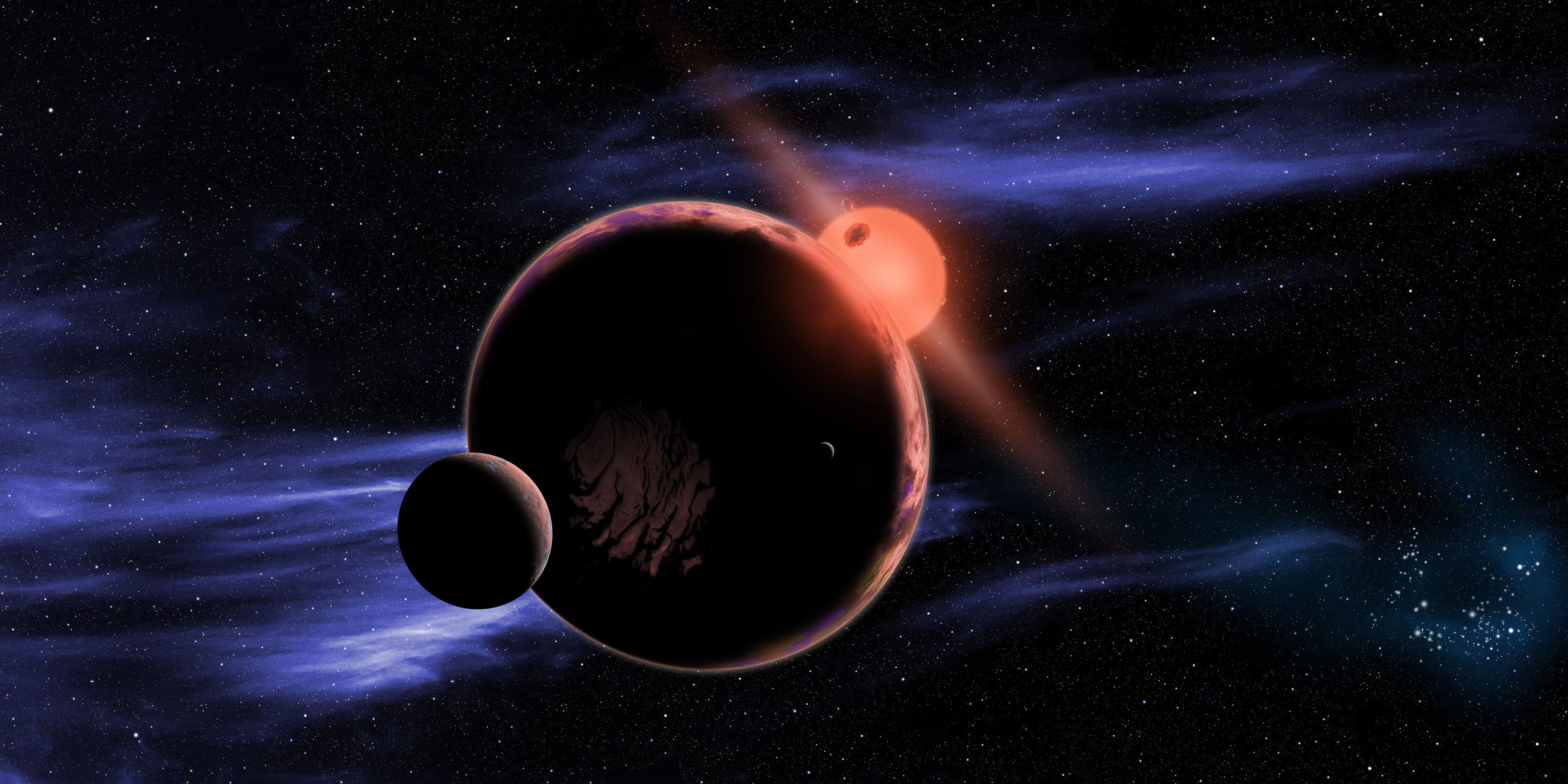 Red Dwarf Planet The artist's conception shows a hypothetical planet with two moons orbiting in the habitable zone of a red dwarf star. Using publicly available data from NASA's Kepler space telescope, astronomers at the Harvard-Smithsonian Center for Astrophysics (CfA) estimate that six percent of red dwarf stars have an Earth-sized planet in the "habitable zone," the range of distances from a star where the surface temperature of an orbiting planet might be suitable for liquid water. The majority of the sun's closest stellar neighbors are red dwarfs. Researchers now believe that an Earth-size planet with a moderate temperature may be just 13 light-years away. Astronomers don't know if life could exist on a planet orbiting a red dwarf. However, this finding suggests that the most common type of the star in the galaxy may provide many more cosmic neighborhoods to search for planets that may be like our own.